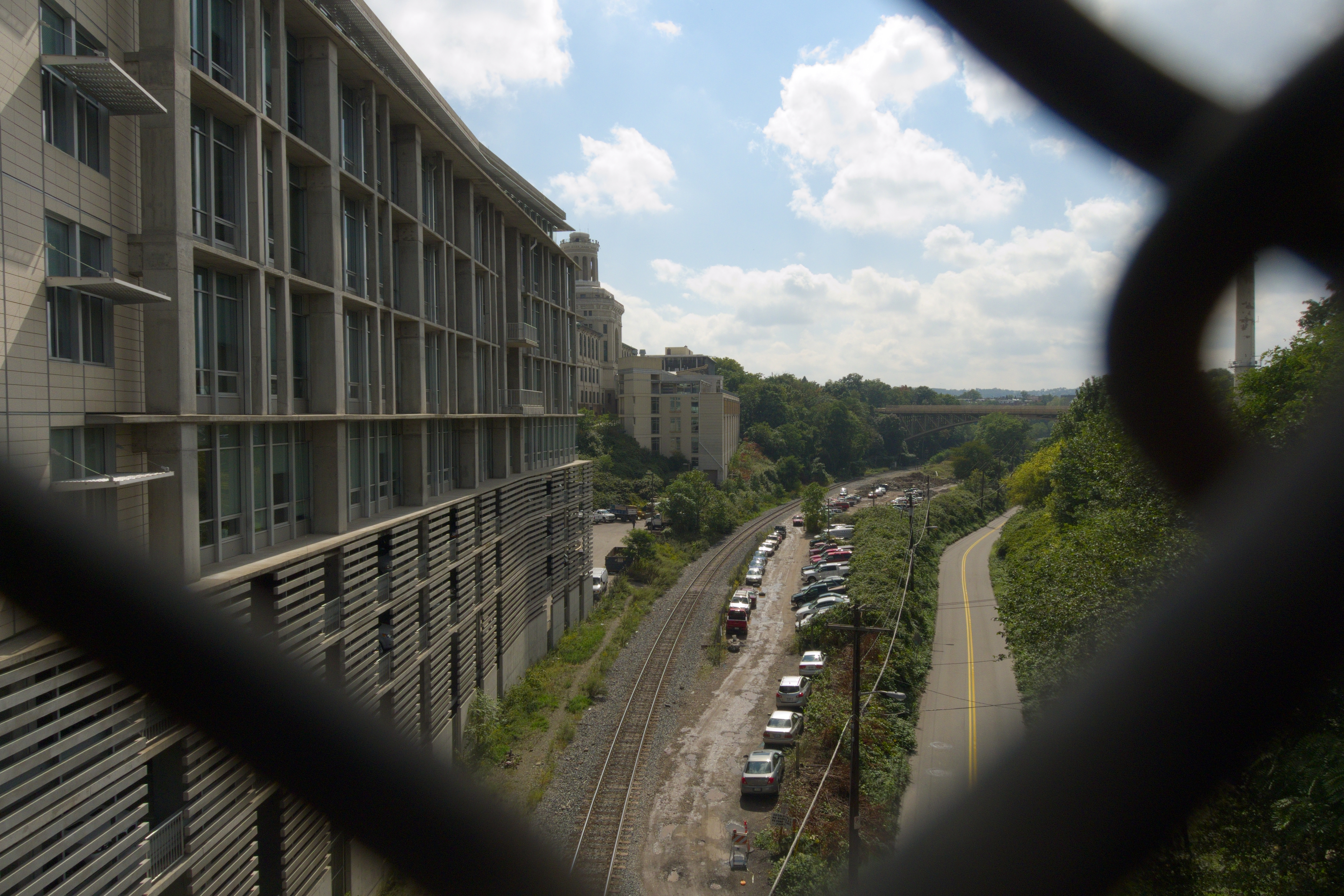 Original flickr description These are the railroad tracks I was talking about in the previous photo. The building at left goes by the fully buzzword-compliant name of the Collaborative Innovation Center.